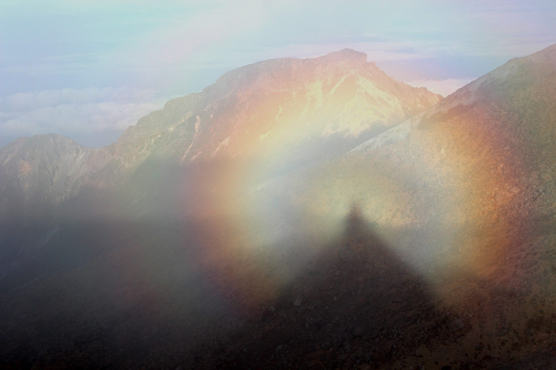 Brocken spectre in Mount Ontake, in Nagano prefecture, Japan.